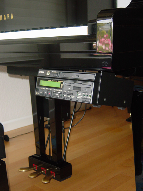 The control unit of the Yamaha Disklavier Mark III. This picture shows one component of the Yamaha Disklavier player piano. The unit mounted under the keyboard of the piano can play MIDI or audio software on its CD or floppy disk drive. Songs can be recorded/transferred to one of the 16 memory drives each has the equivalent capacity of one floppy disk. Clockwise from the upper right corner of the unit are: CD drive; floppy disk drive; control cluster for volume, tempo, transposition, balance; button cluster for function, voice selection, cursor control; song selection; left/right hand part selection; play/stop/pause buttons; power button; LCD display; disk drives indicator and selection button. On the back of the unit are MIDI in/out ports and computer serial interface connections. Most components of the system are out of sight. Other components include a row of solenoids and optical sensors mounted behind each and every piano key, the synthesizer for other non-piano MIDI voices, amplifier and two speakers mounted under the sound board.